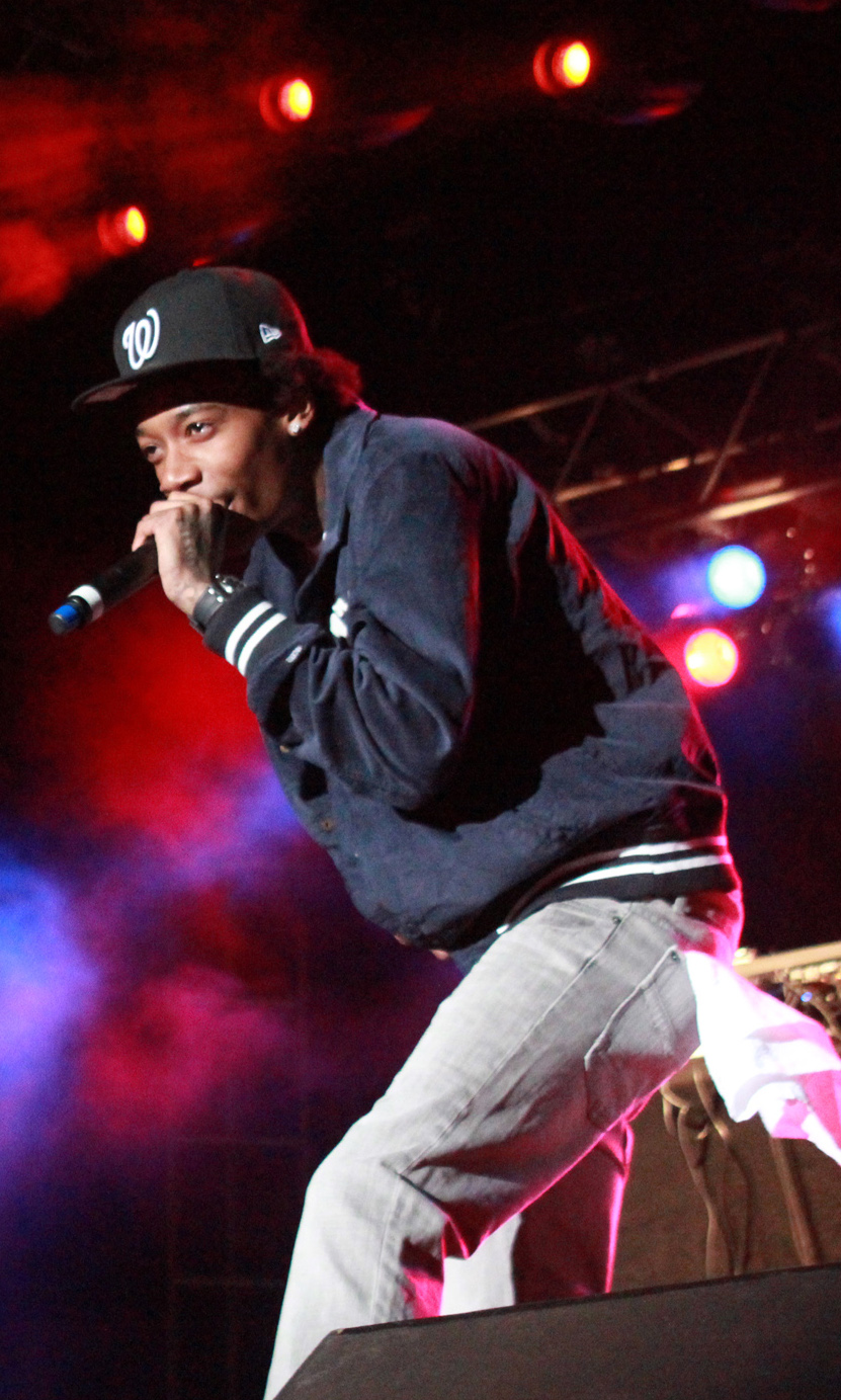 Taken by Christopher Collins for at UB Spring Fest 2011.